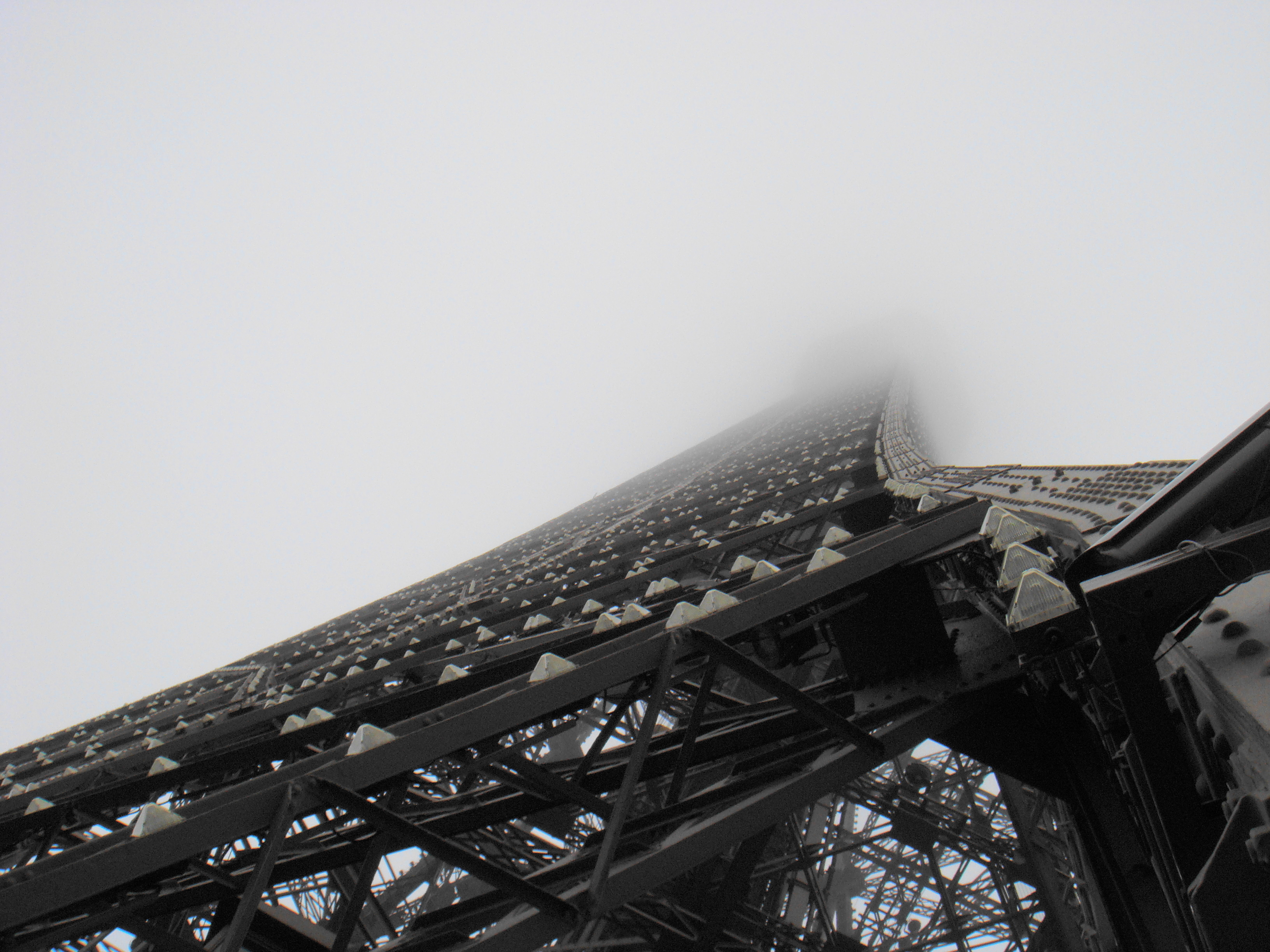 Eiffel Tower in fog